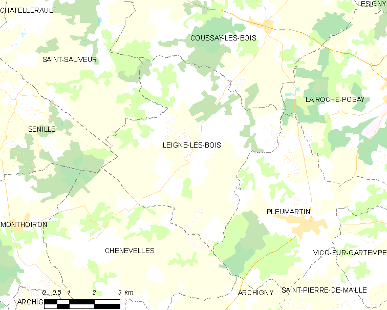 Map of French municipality Leigné-les-Bois